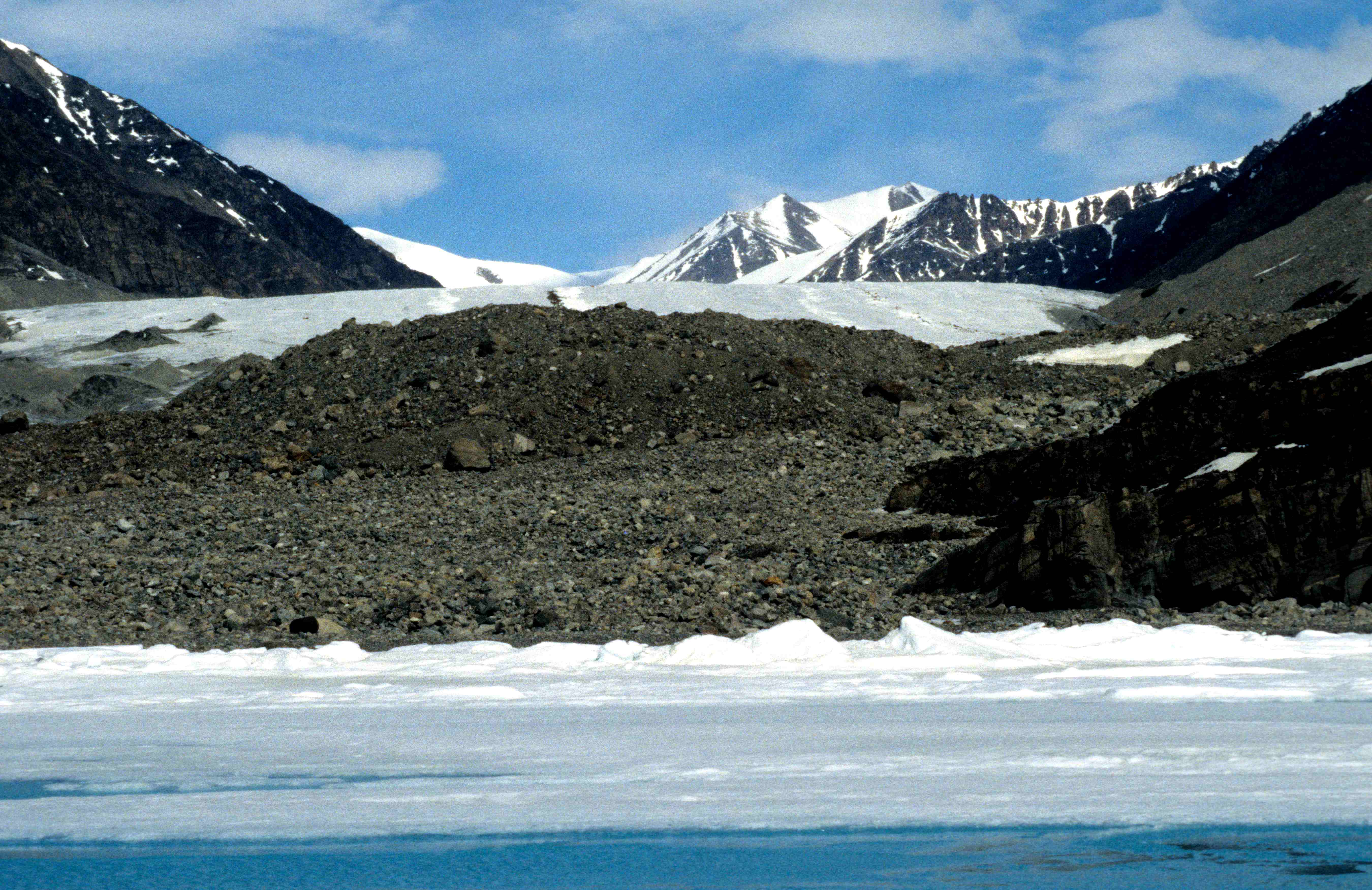 Nararsuk Glacier (southern coast of Bylot Island at Pond Inlet, Sirmilik National Park, Canada)